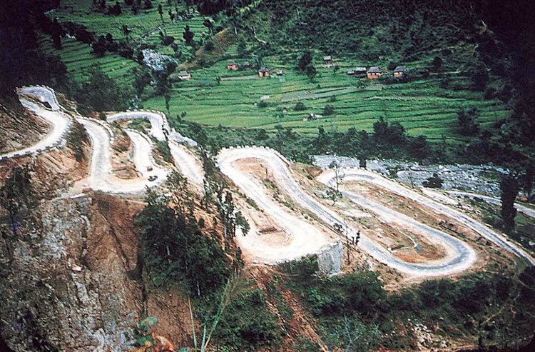 Hairpin bends known as Barha Ghumti on the Tribhuvan Highway that connects Kathmandu, Nepal with the Indian border.